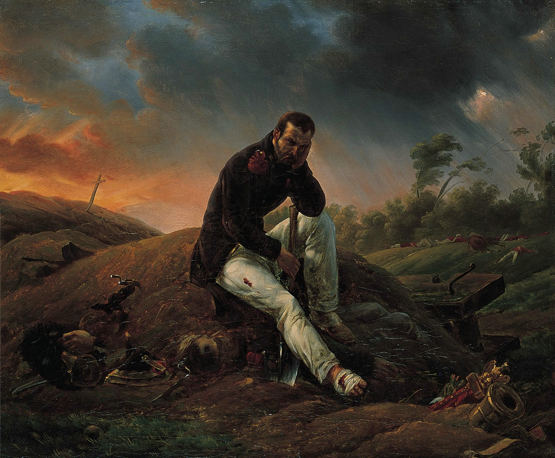 Horace Vernet: The Soldier on the Field of Battle